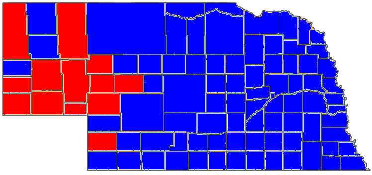 Self-created map of 2006 Nebraska senate results by county.